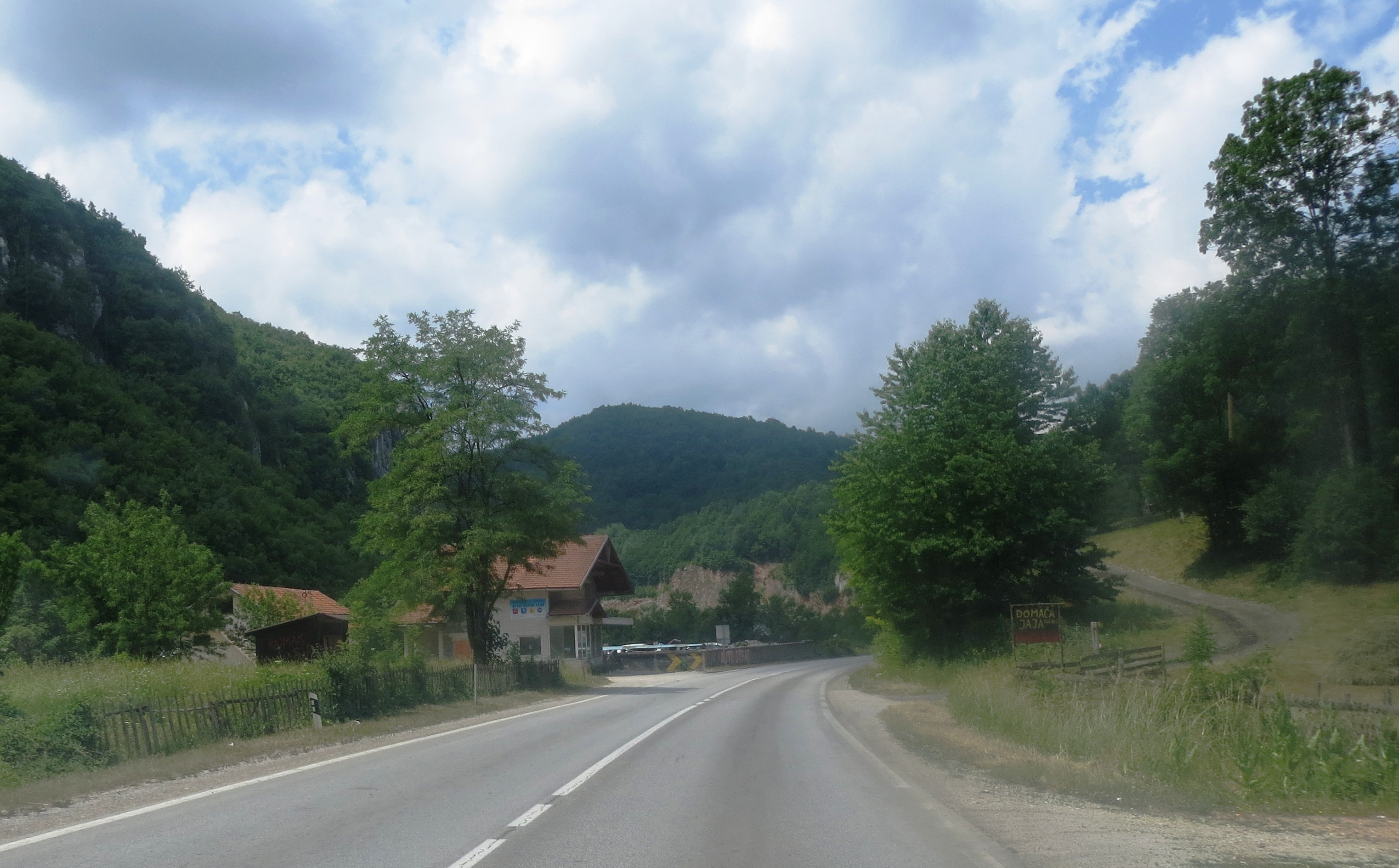 Image from eastern Sarajevo, seen from around the E 761 highway between Sarajevo and Pale - Bosnia & Hercegovina.